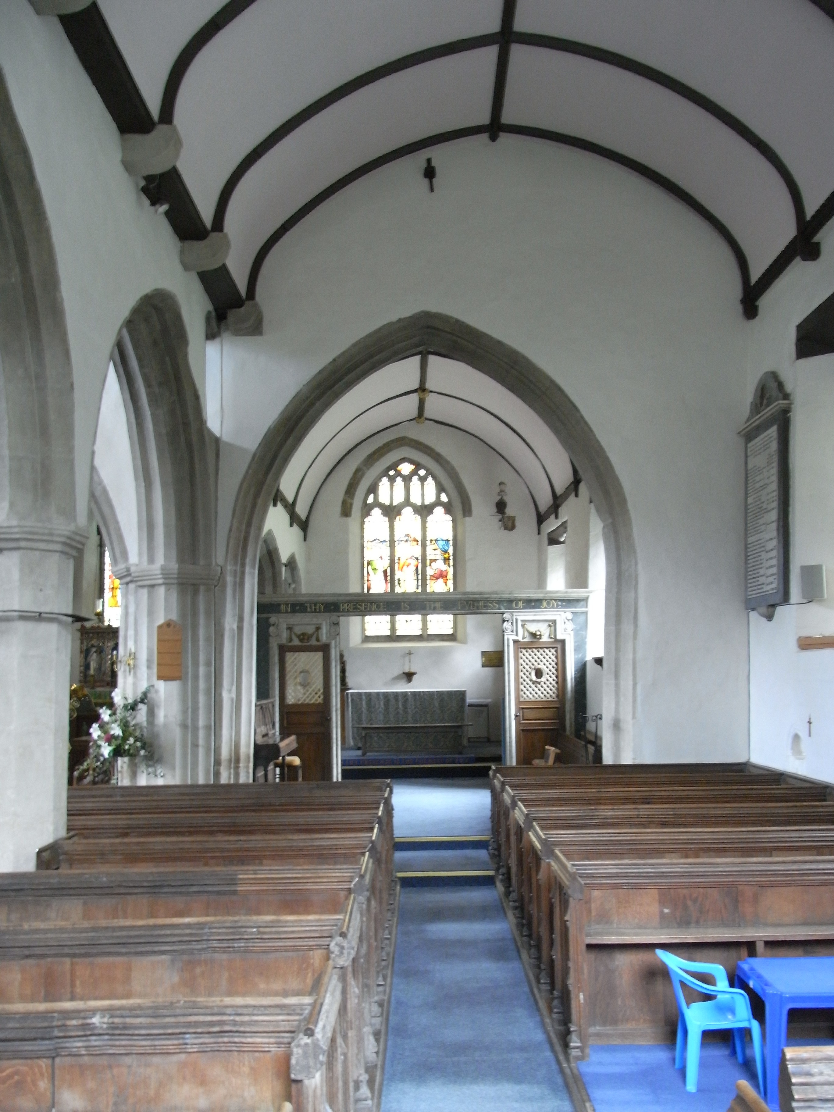 View eastwards towards the Poyntz Chapel in the east end of south aisle of Church of St James The Less, Iron Acton, Gloucestershire.